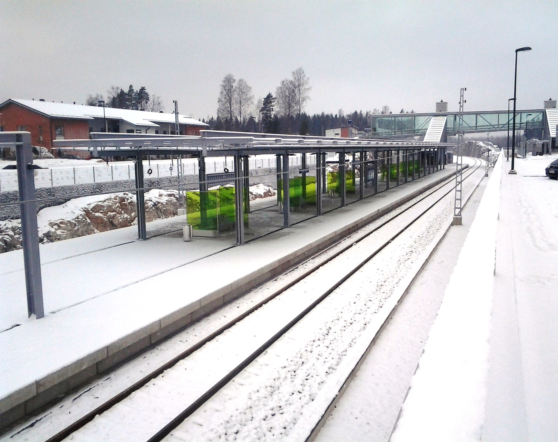 Leinelä railway station in Vantaa on the Ring Rail Line.